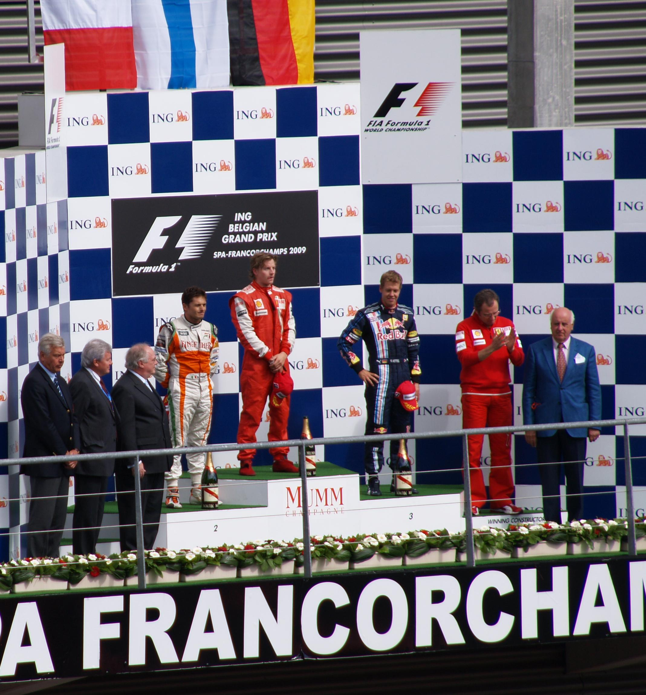 The podium of the 2009 Belgian Grand Prix. From left to right: Giancarlo Fisichella, Kimi Räikkönen, Sebastian Vettel, Stefano Domenicali.